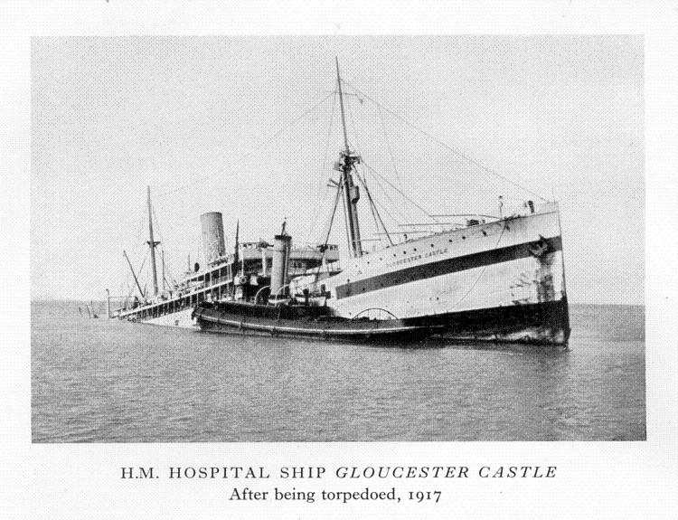 HMS Gloucester Castle sinking after being torpedoed by a German u-boat